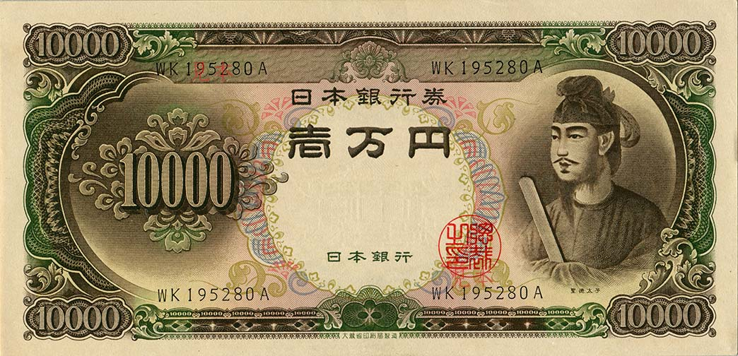 Series C 10000 Yen Bank of Japan note. Portrait: Prince Shōtoku. First issued in 1958. Issue suspended in 1986. Legal tender. 174mm x 84mm.